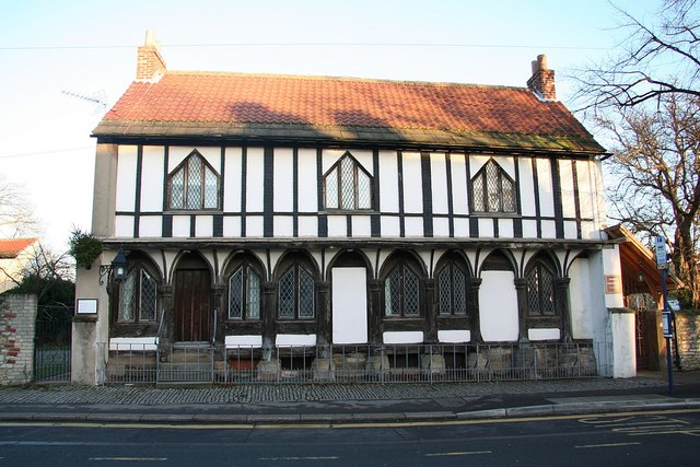 St.Leonard's Hospital Almshouses on Northgate with a superb timber framed facade of 1470, restored in 1851, now Tickhill Parish Room